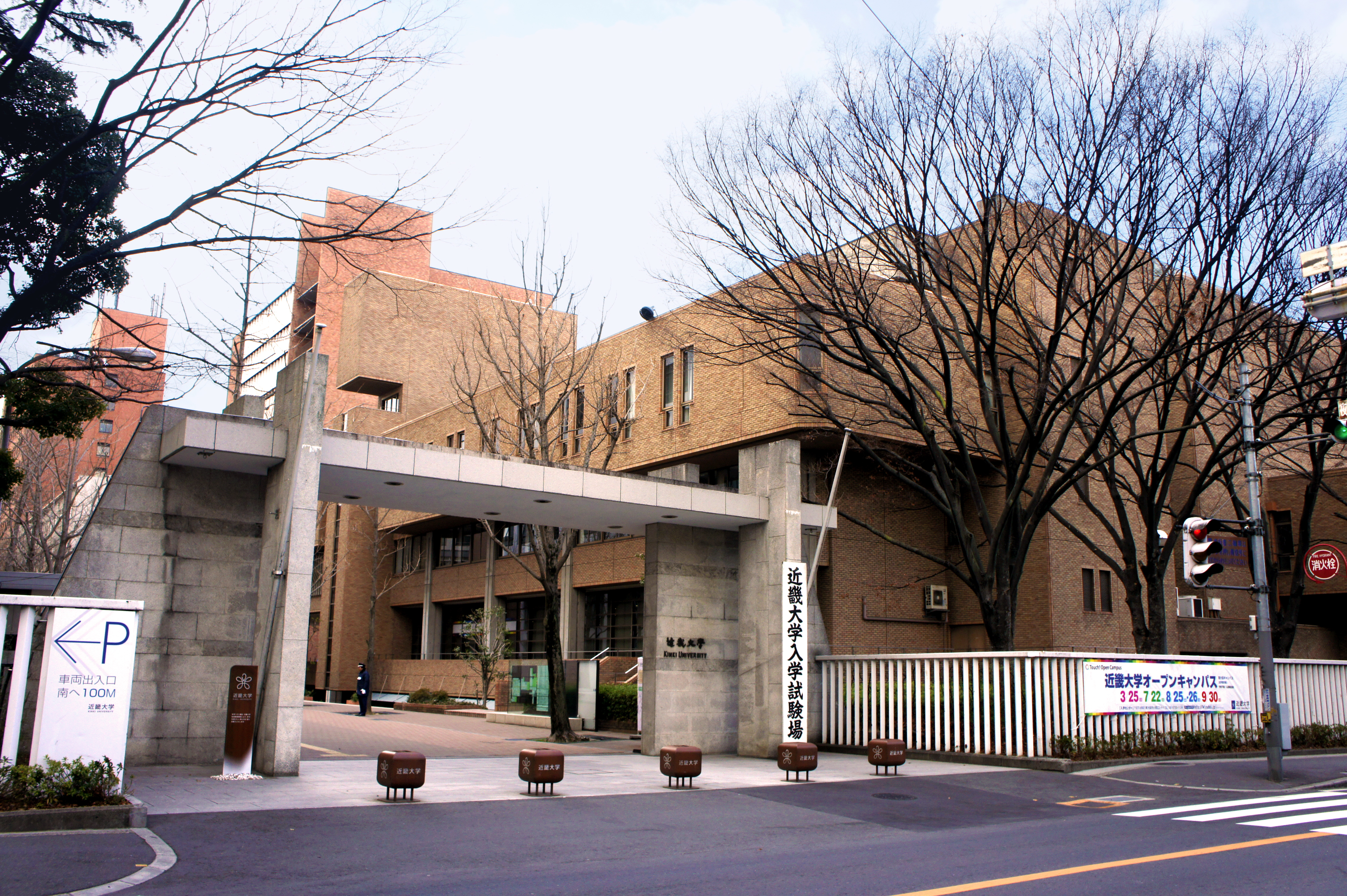 Kinki University, 3-4-1 Kowakae Higashiosaka-City Osaka JAPAN.